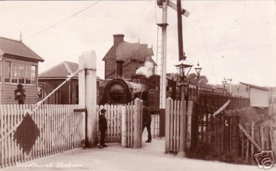 Goudhurst railway station with an unidentified Stirling Q class